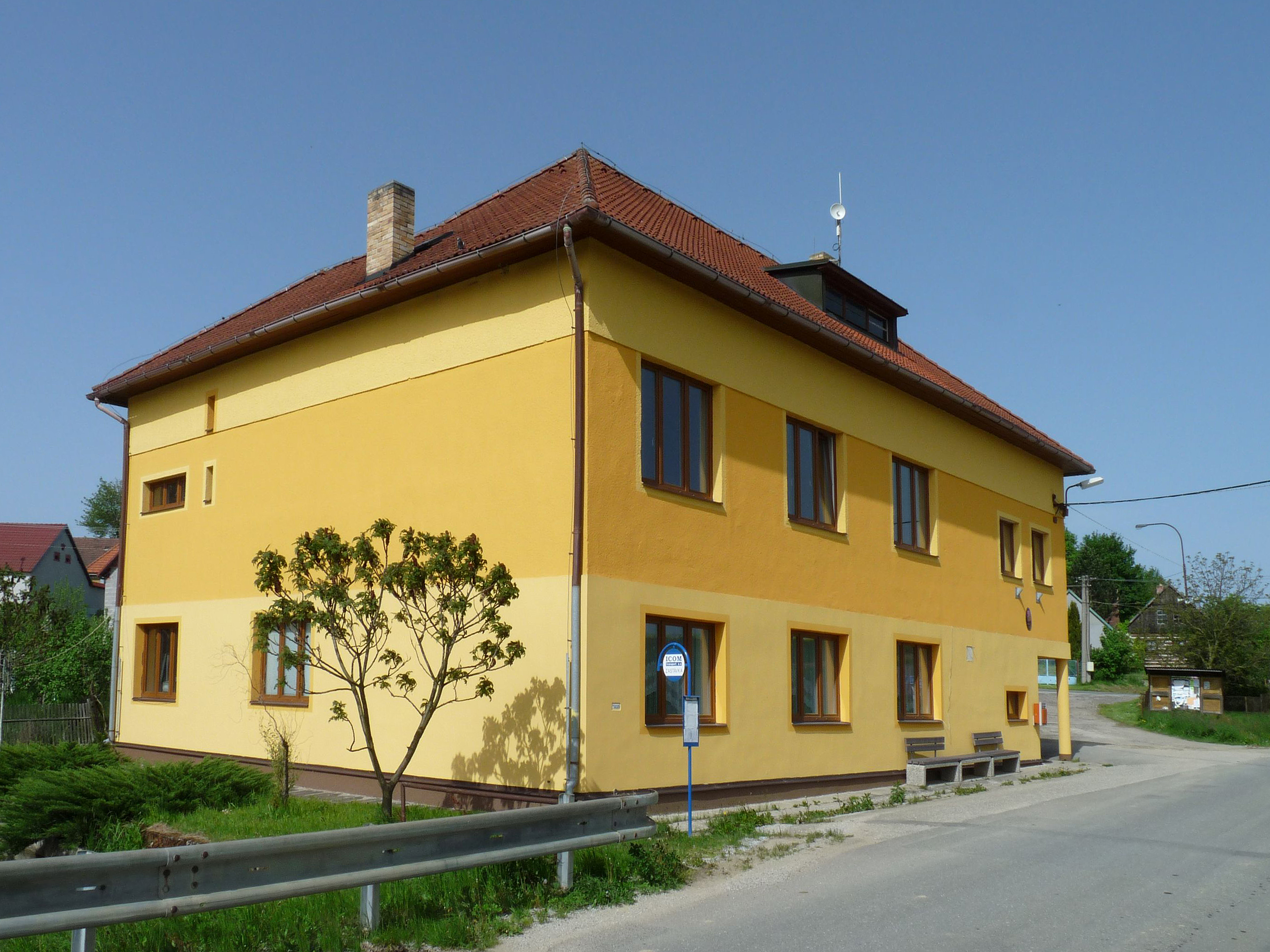 Municipal office building in the village of Drunče, Jindřichův Hradec District, South Bohemian Region, Czech Republic.